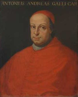 Antonio Andrea Galli, cardinal of the Roman Catholic Church